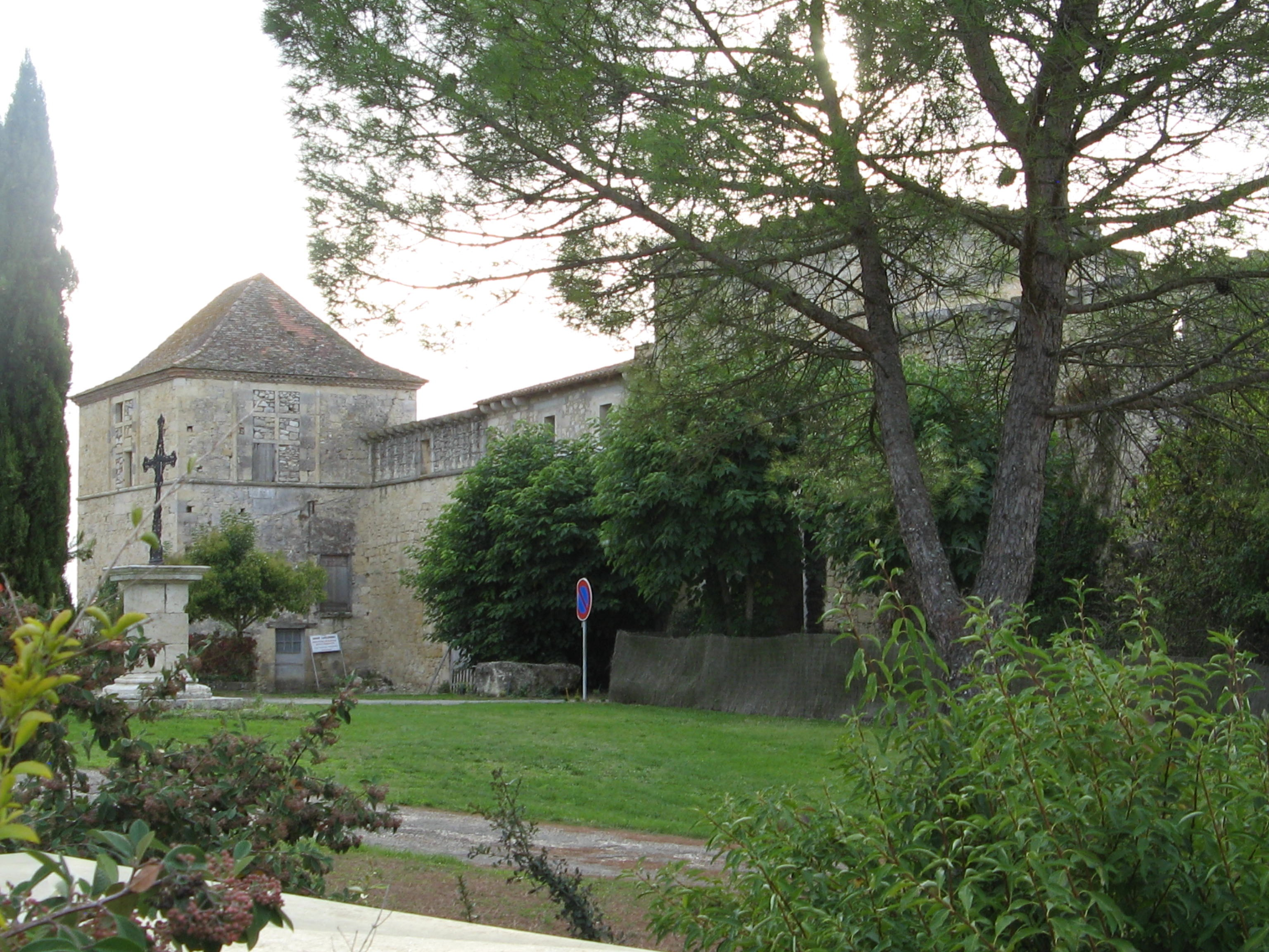 Fortress of the Château de Lagarde, Lagarde-Fimacon, Gers .